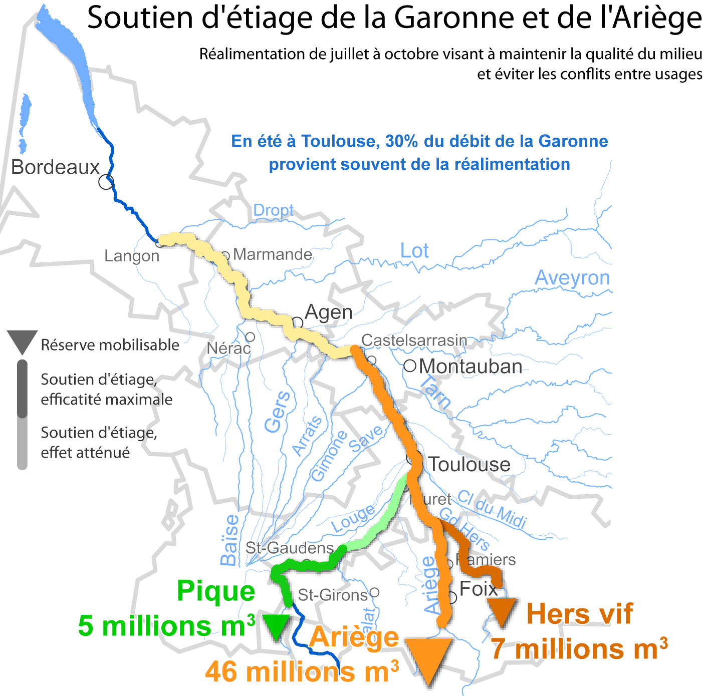 Carte de la réalimentation en étiage des rivières Garonne et Ariège